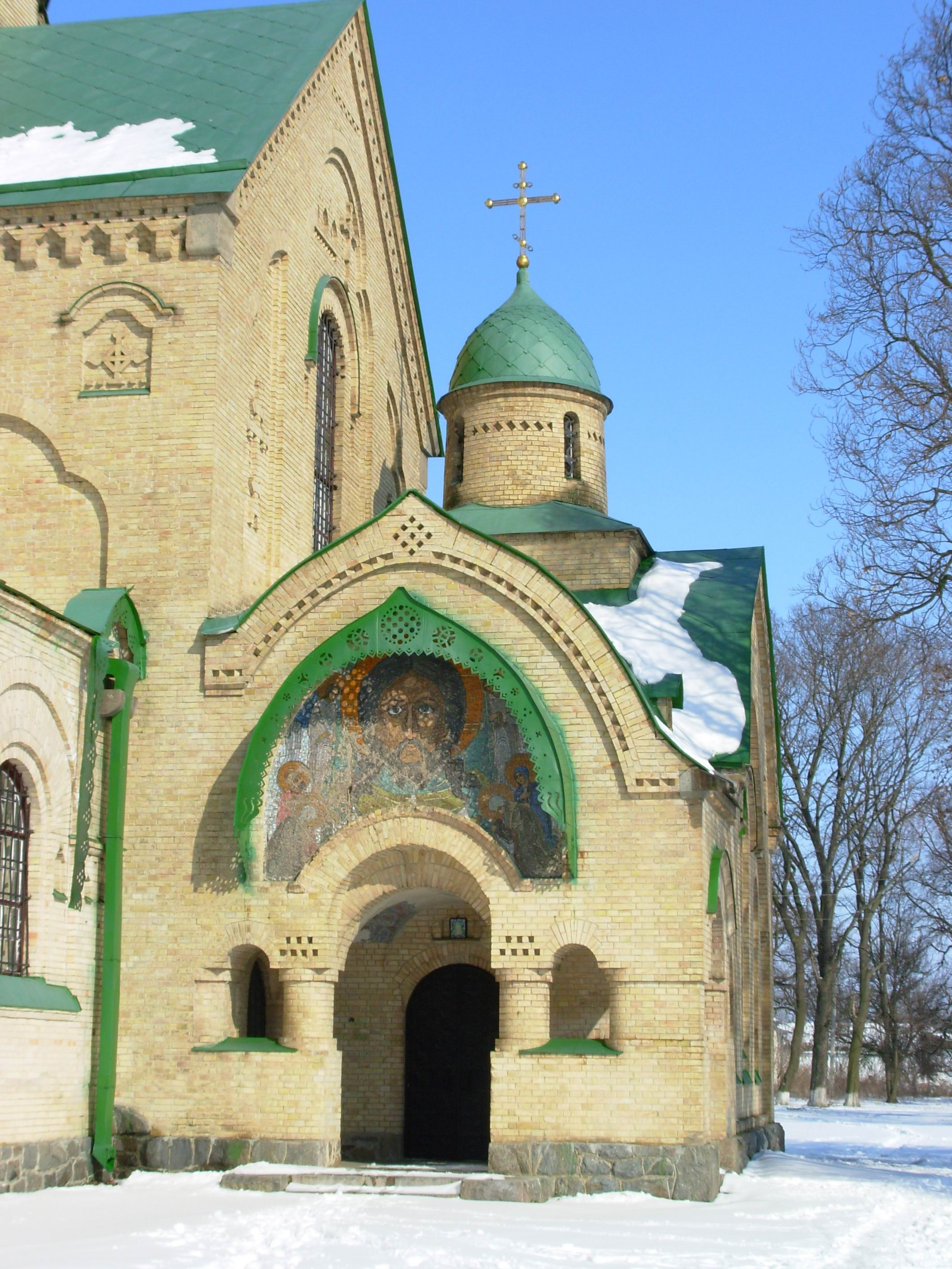 Пархомовка_Церковь_Придел